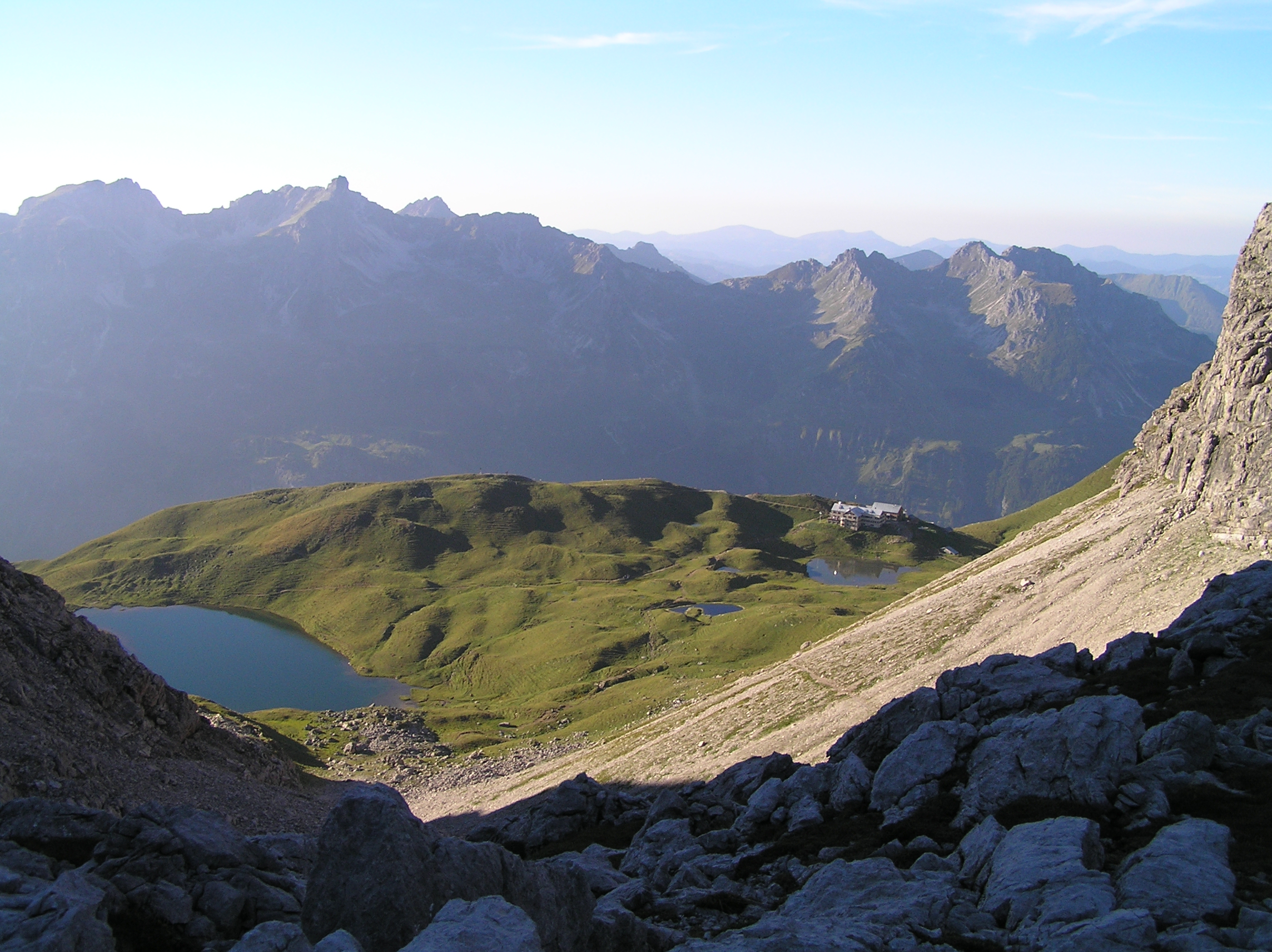 View from ascent to P. 2279 between Rappenseekopf and Hochgundkopf to the north down to Rappensee (2047 m) and Small Rappensee in front of the Rappensee-Mountain hut (2091 m). In the background are Second (2302 m) and Third Schafalpenkopf (2320 m), Fiderescharte (2214 m), Roßgundkopf (2139 m), Alpgundkopf (2177 m), Grießgundkopf (2164 m) and Söllereck (1706 m). A little more in the background are Hammerspitze (2260 m) and Kanzelwand (2047 m). Totally in the background are the mountains of the Nagelfluh-Range.